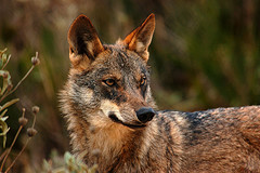 Wolf of Iberia (Iberian Wolf)